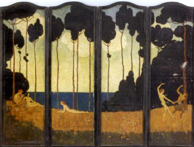 A folding screen painted by Elenore Abbott, entitled Rose Valley